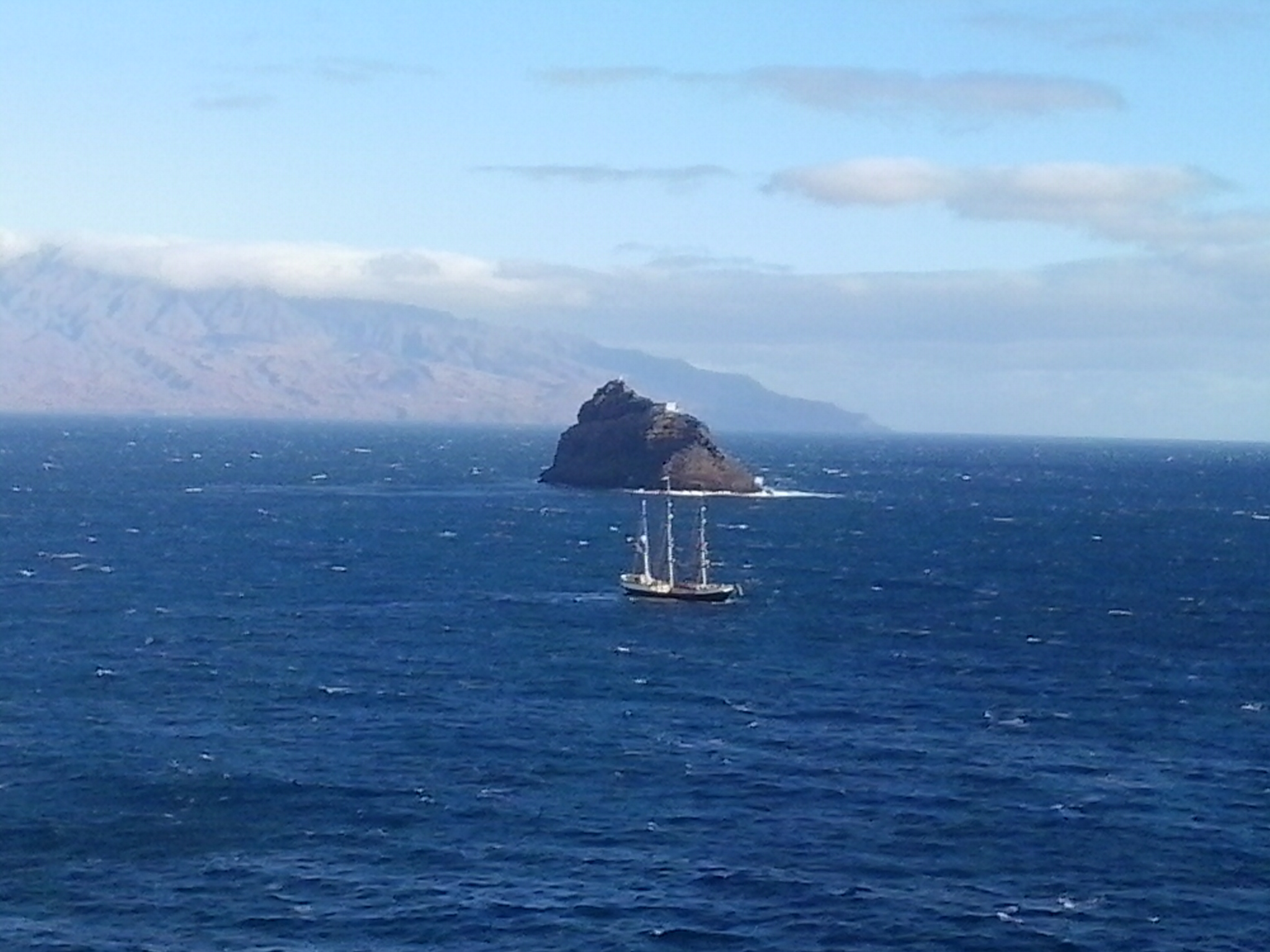 Landscape view of Ilheu dos Passaros, Cape Verde